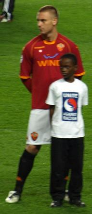 Daniele de Rossi